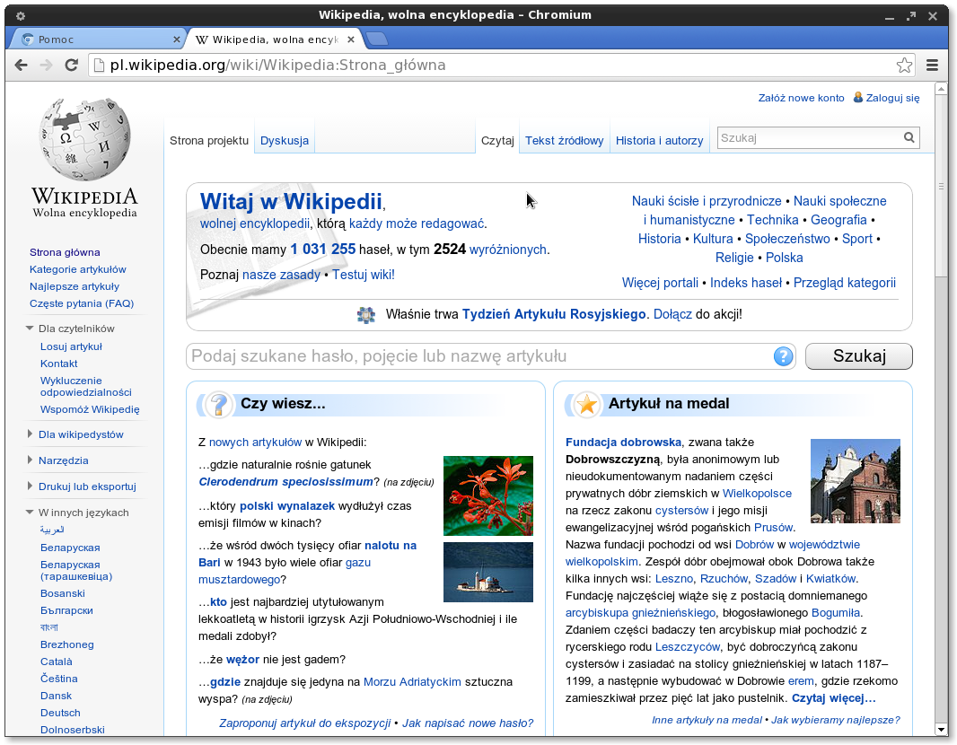 Chromium web browser in Manjaro Linux.